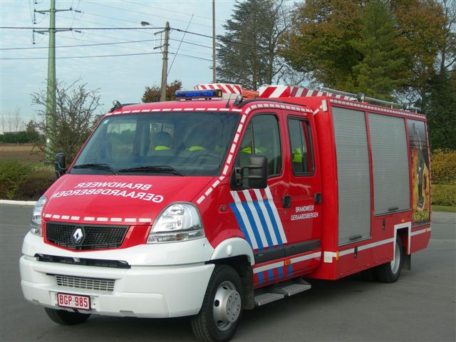 Renault fire engine with "BRANDWEER GERAARDSBERGEN" in mirror writing ("REEWDNARB NEGREBSDRAAREG").